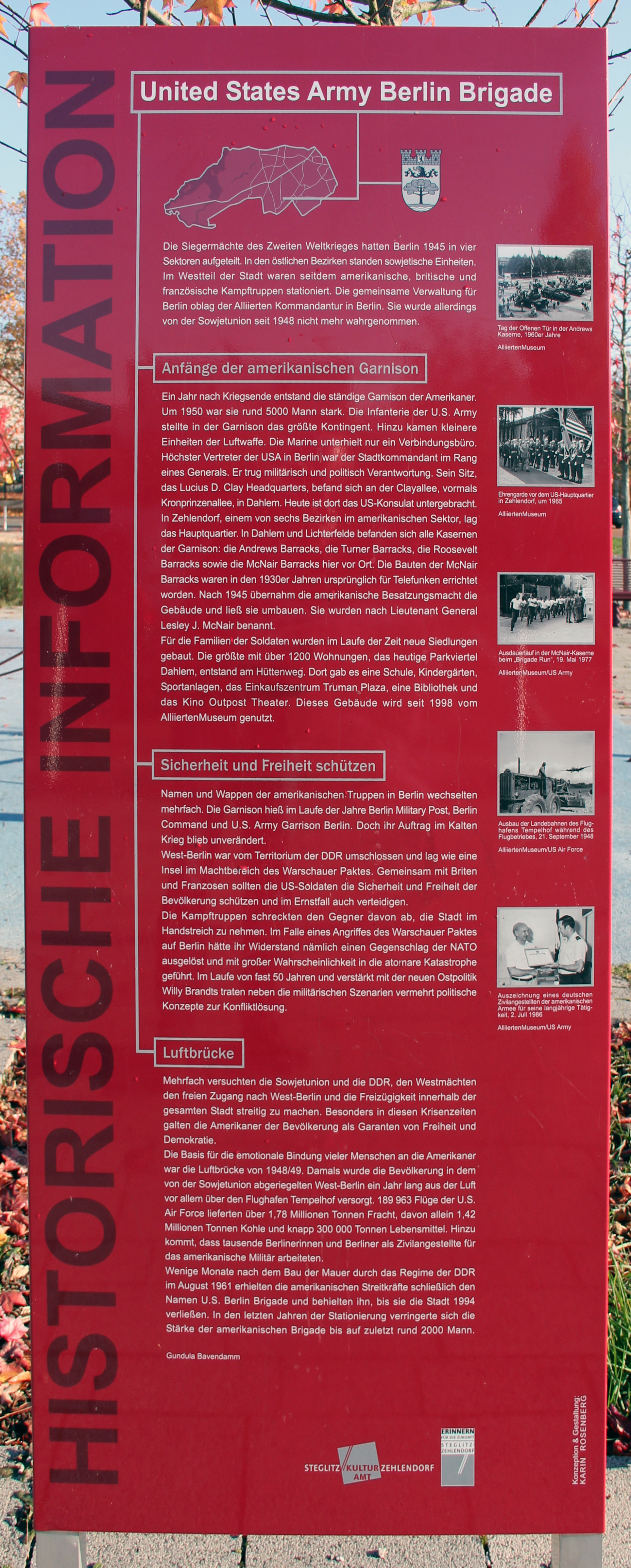 Memorial plaque, Berlin Brigade, Platz der US-Berlin-Brigade, Berlin-Lichterfelde, Germany